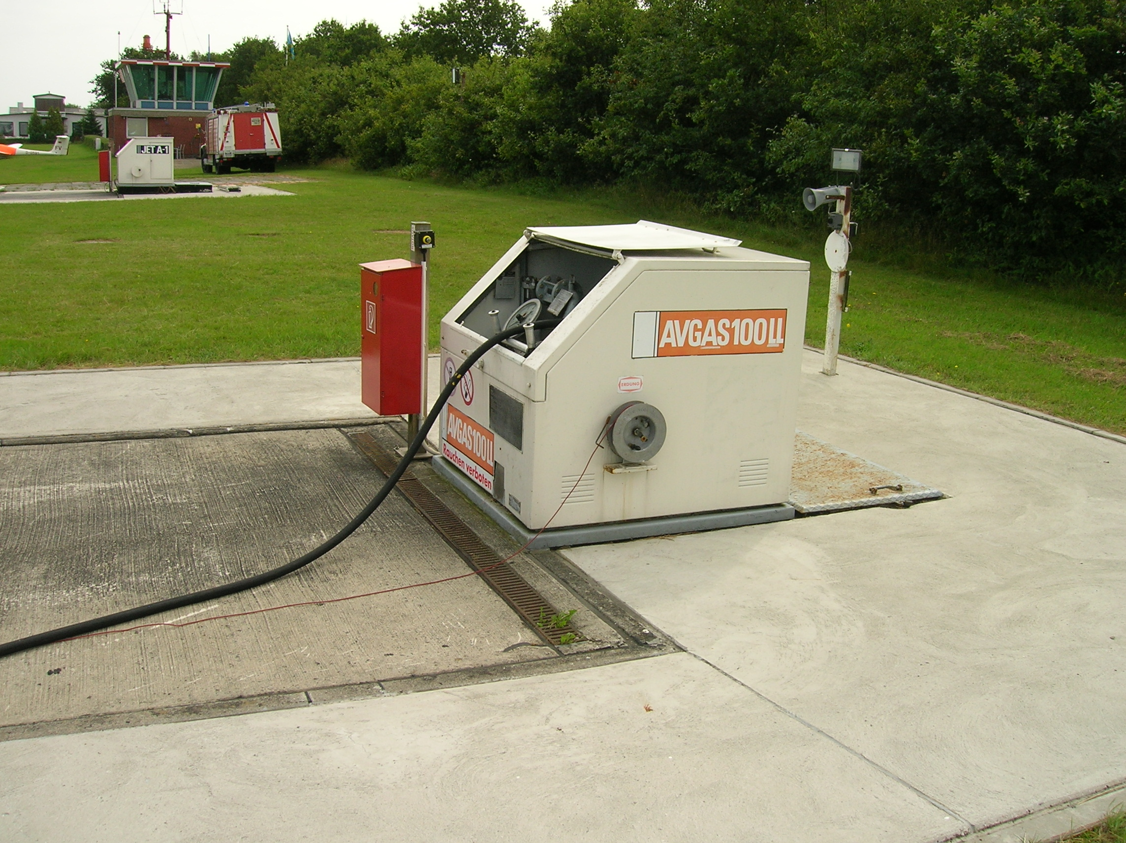 Sankt Michaelisdonn airport: fuel station for Avgas 100LL